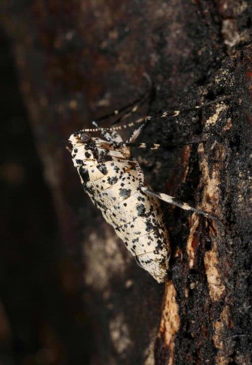 Mottled umber (Erannis defoliaria), female adult